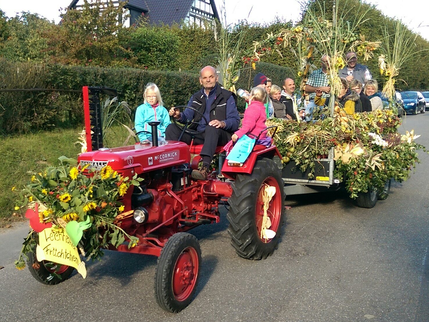 Customs in Germany Harvest Festival in Hohkeppel